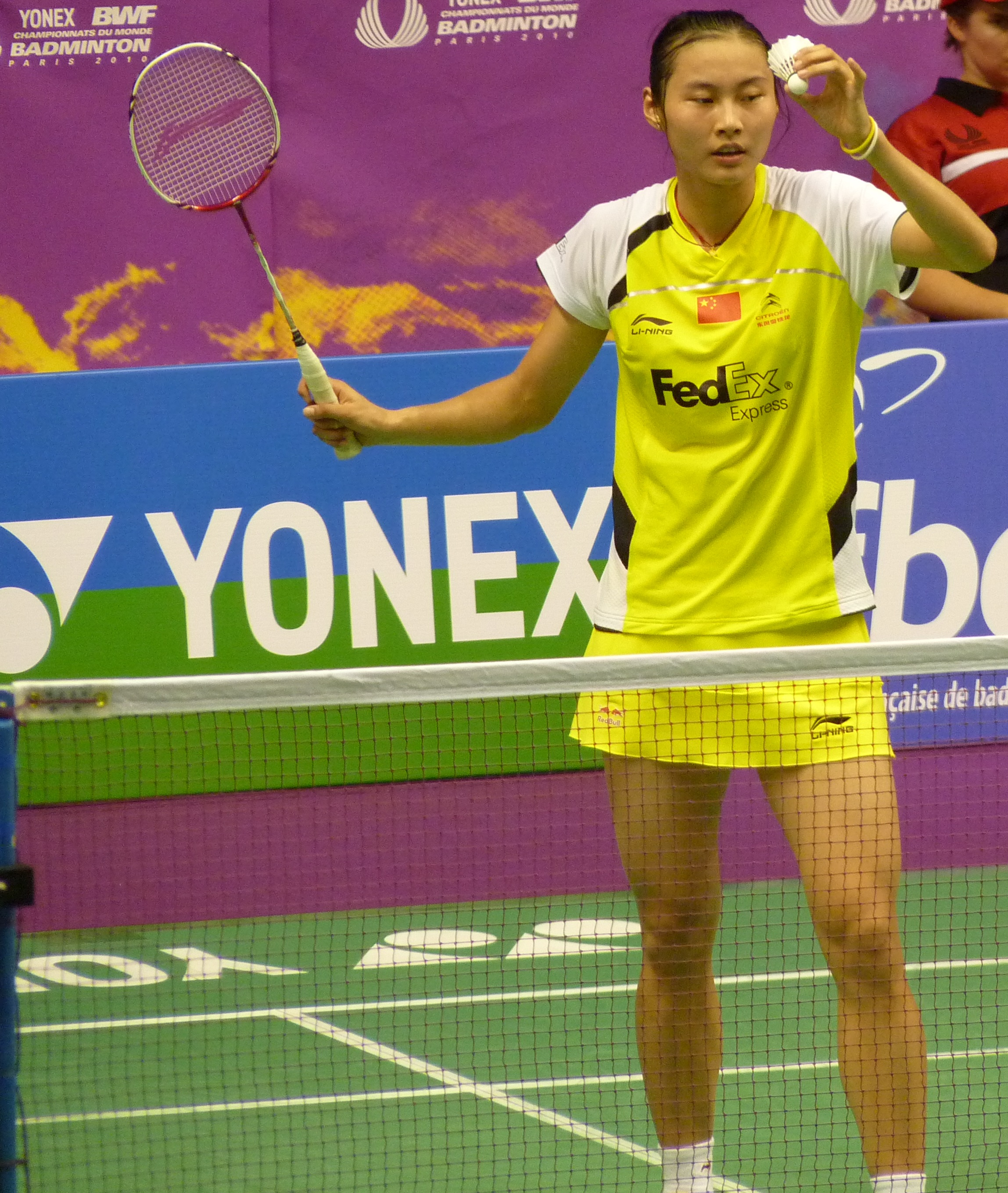 Wang Yihan (China)